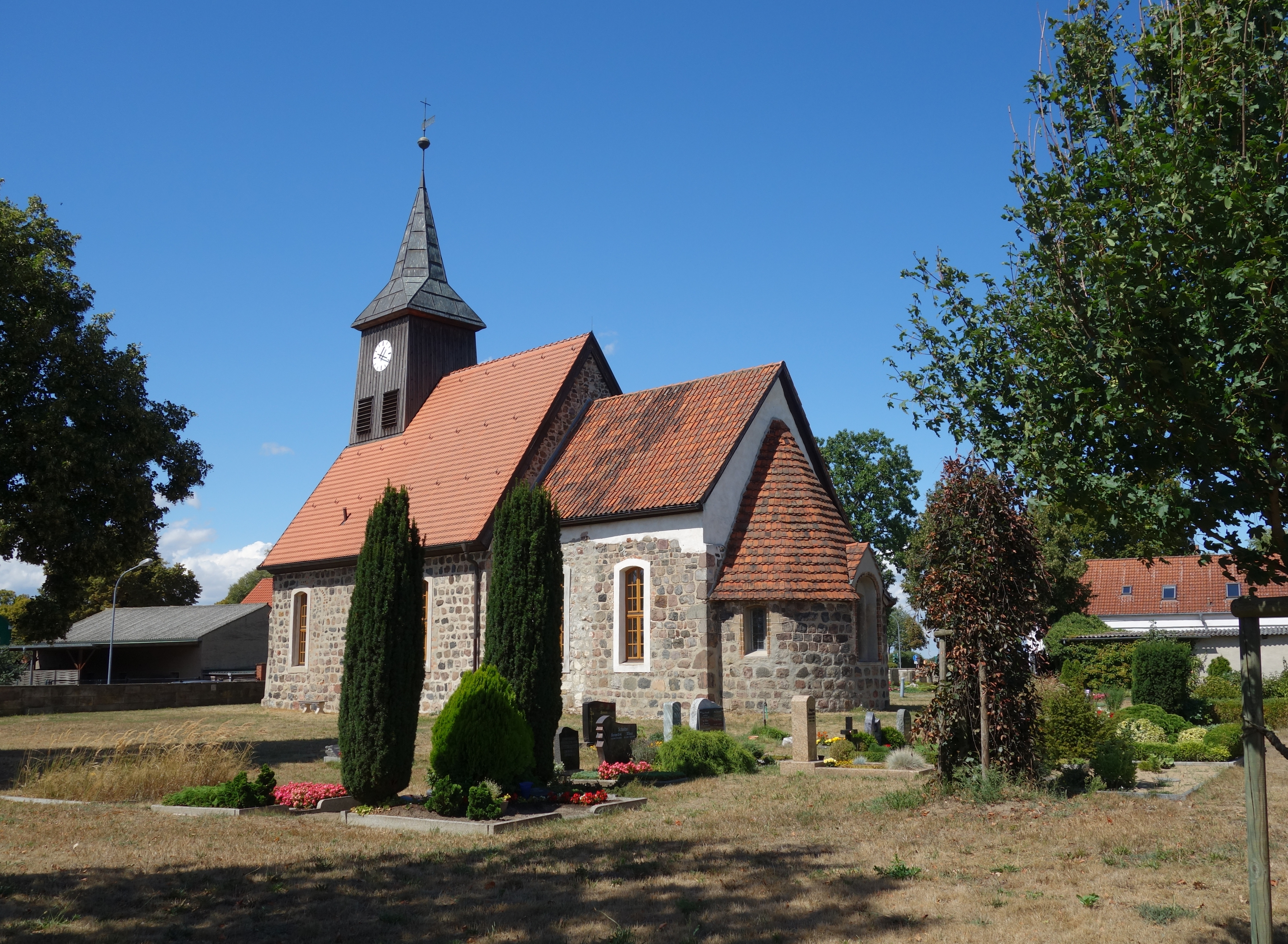 South-eastern view of the church in Seeburg , Dallgow-Döberitz municipality , Havelland district, Brandenburg state, Germany